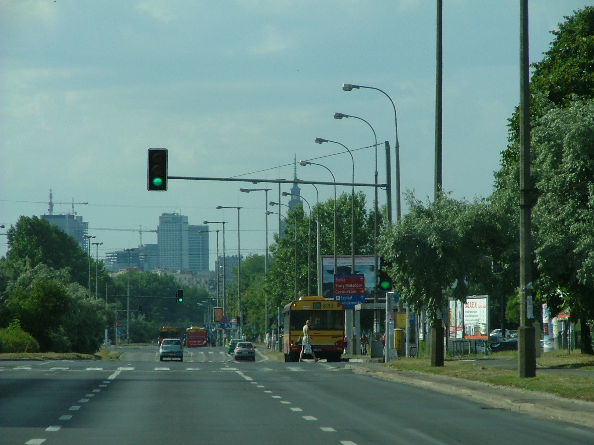 Poland, Sobieskiego Street in Warsaw